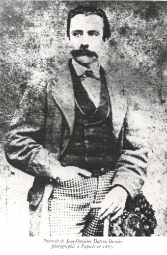 Portrait de Jean-Onésime Dutrou Bornier, photographie à Papeete en 1867